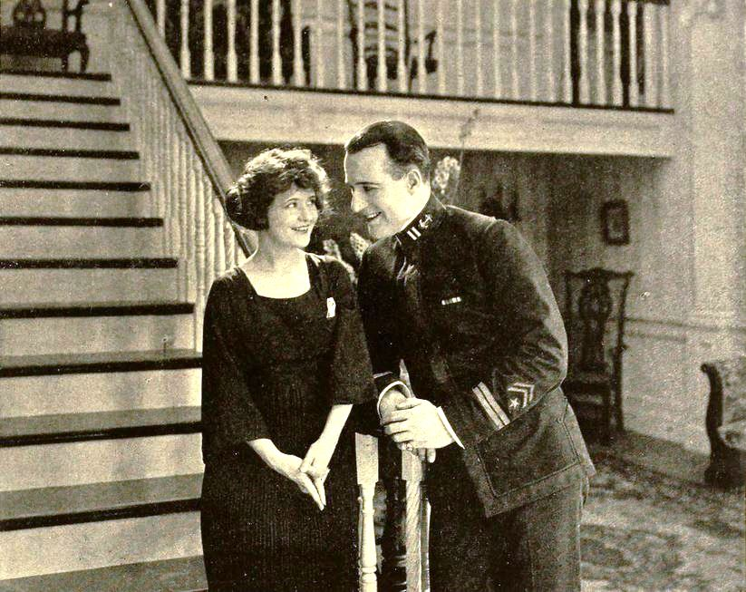 Still from the American romantic comedy film Widow by Proxy (1919) with Marguerite Clark and Nigel Barrie, page 1331 of the August 16, 1919 Motion Picture News.